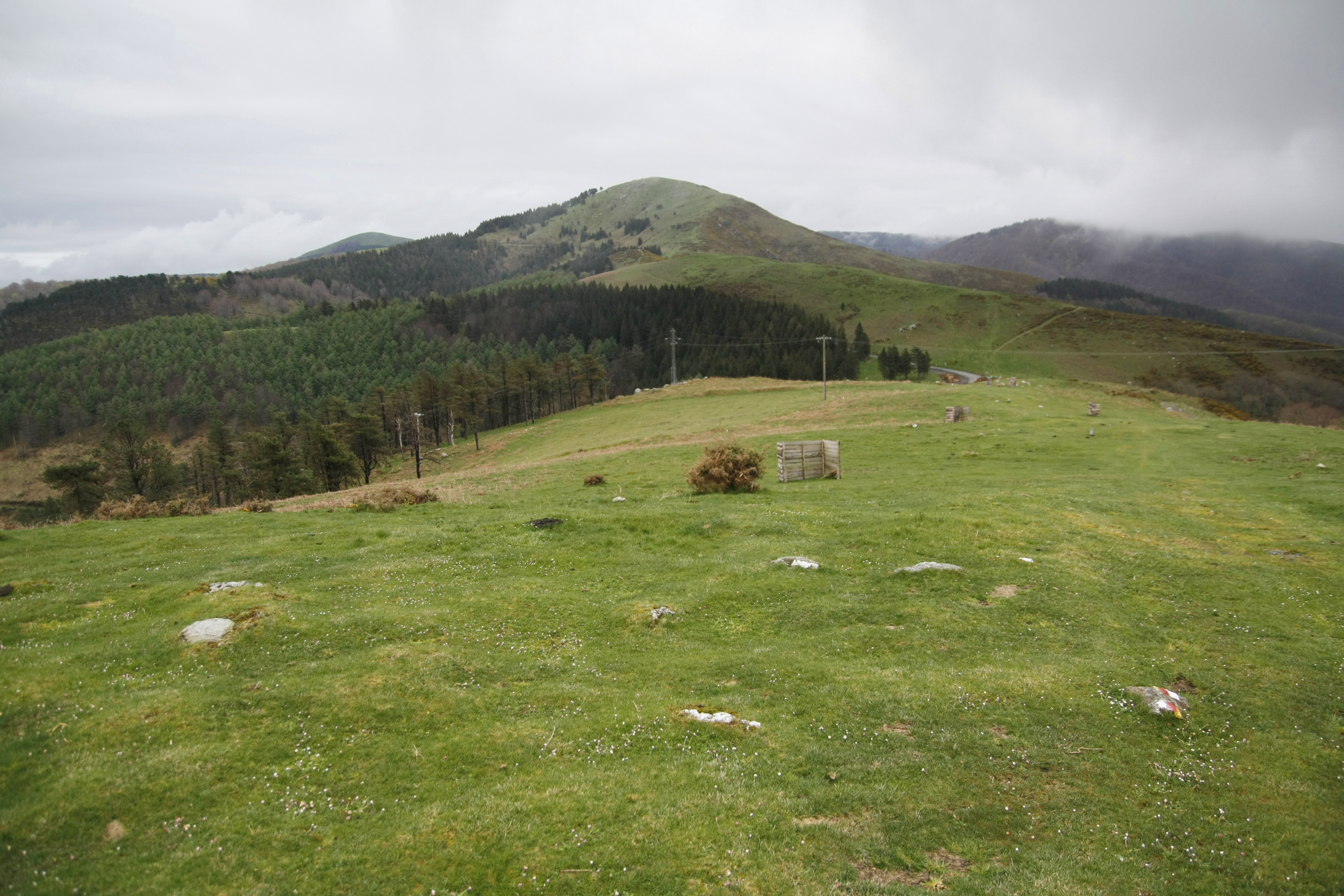 Zaria III cromlech